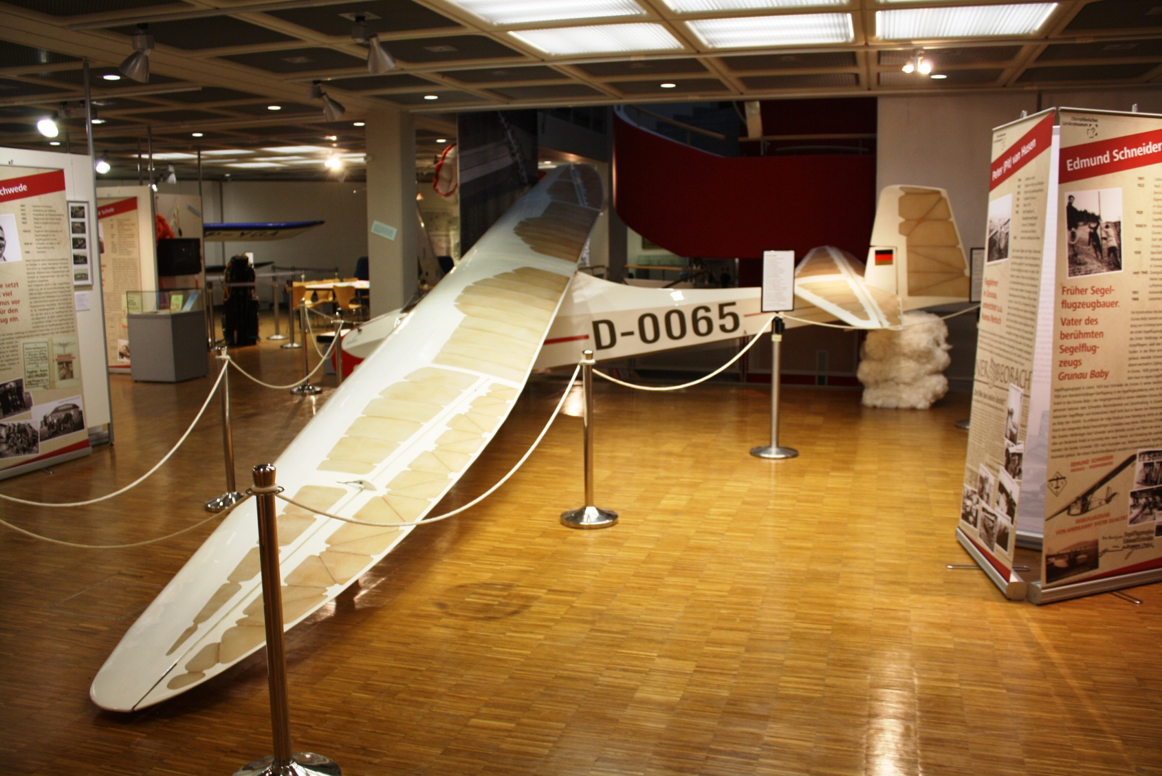 Exhibition of the Upper Silesia State Museum about the history of the aviation in Silesia